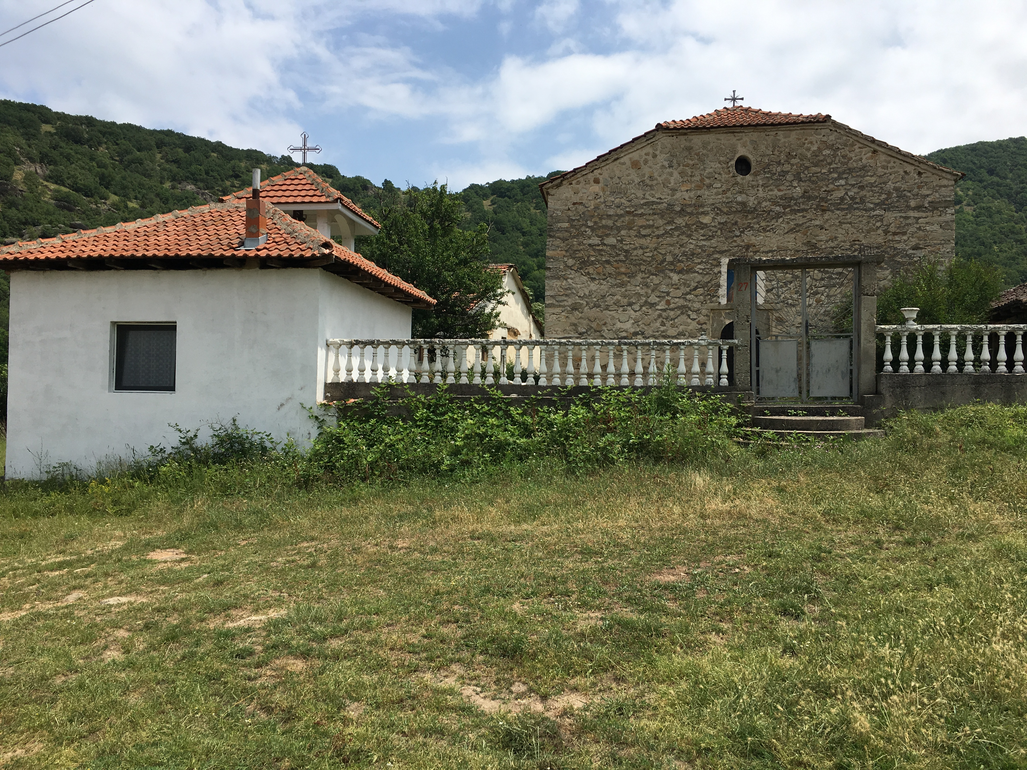 St. Nicholas Church in the village of Oraov Dol